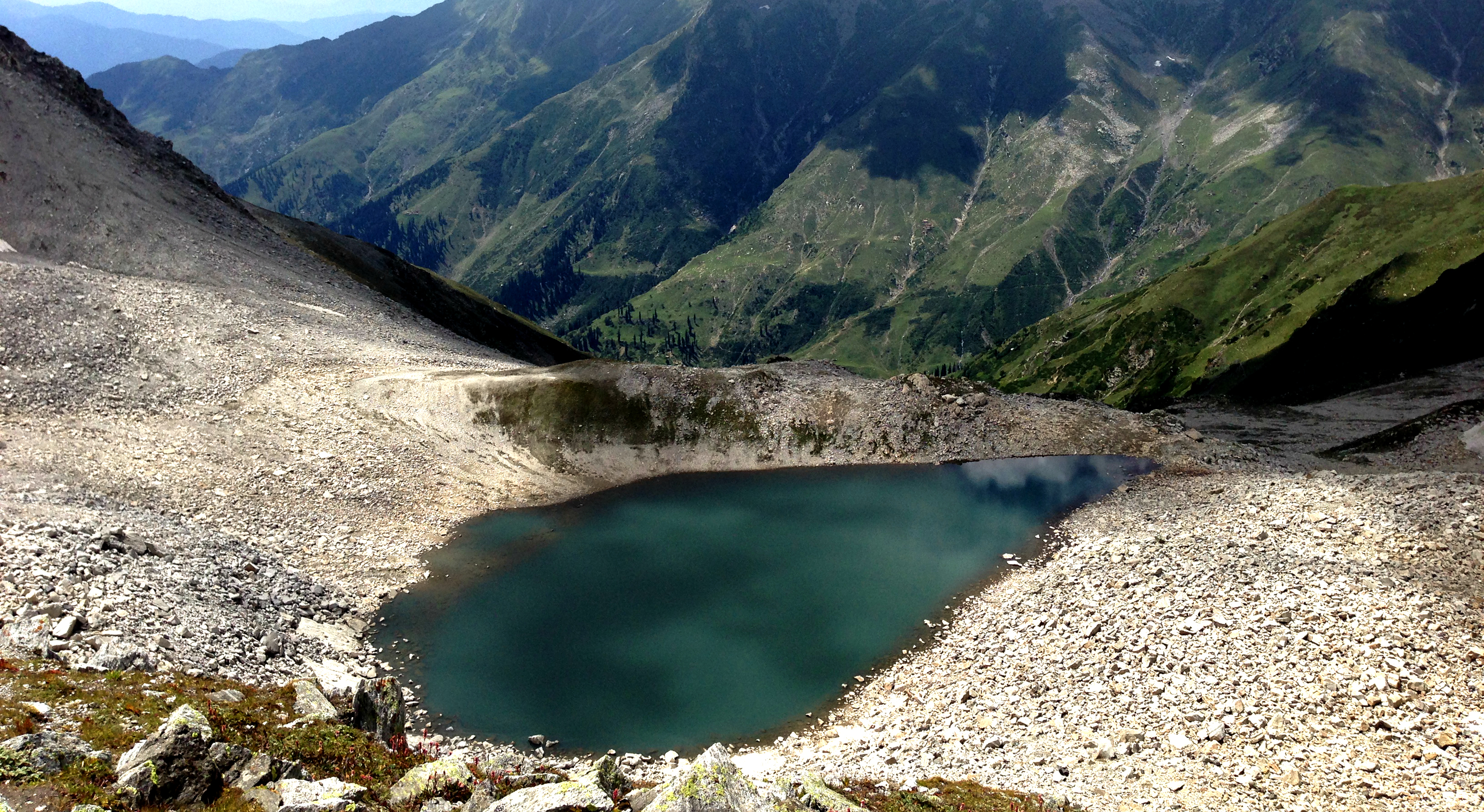 The lake of the shape of a tear